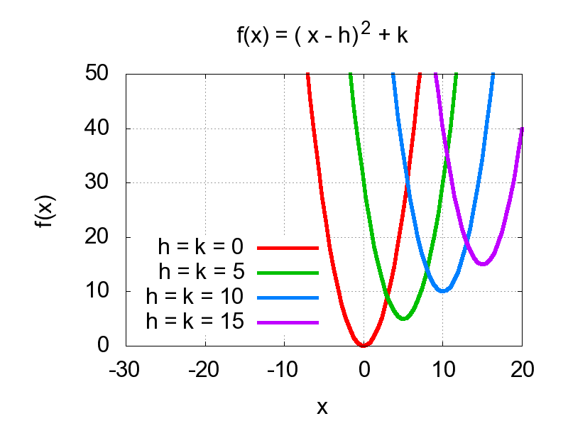 graphs of quadratics with both horizontal and vertical shifts